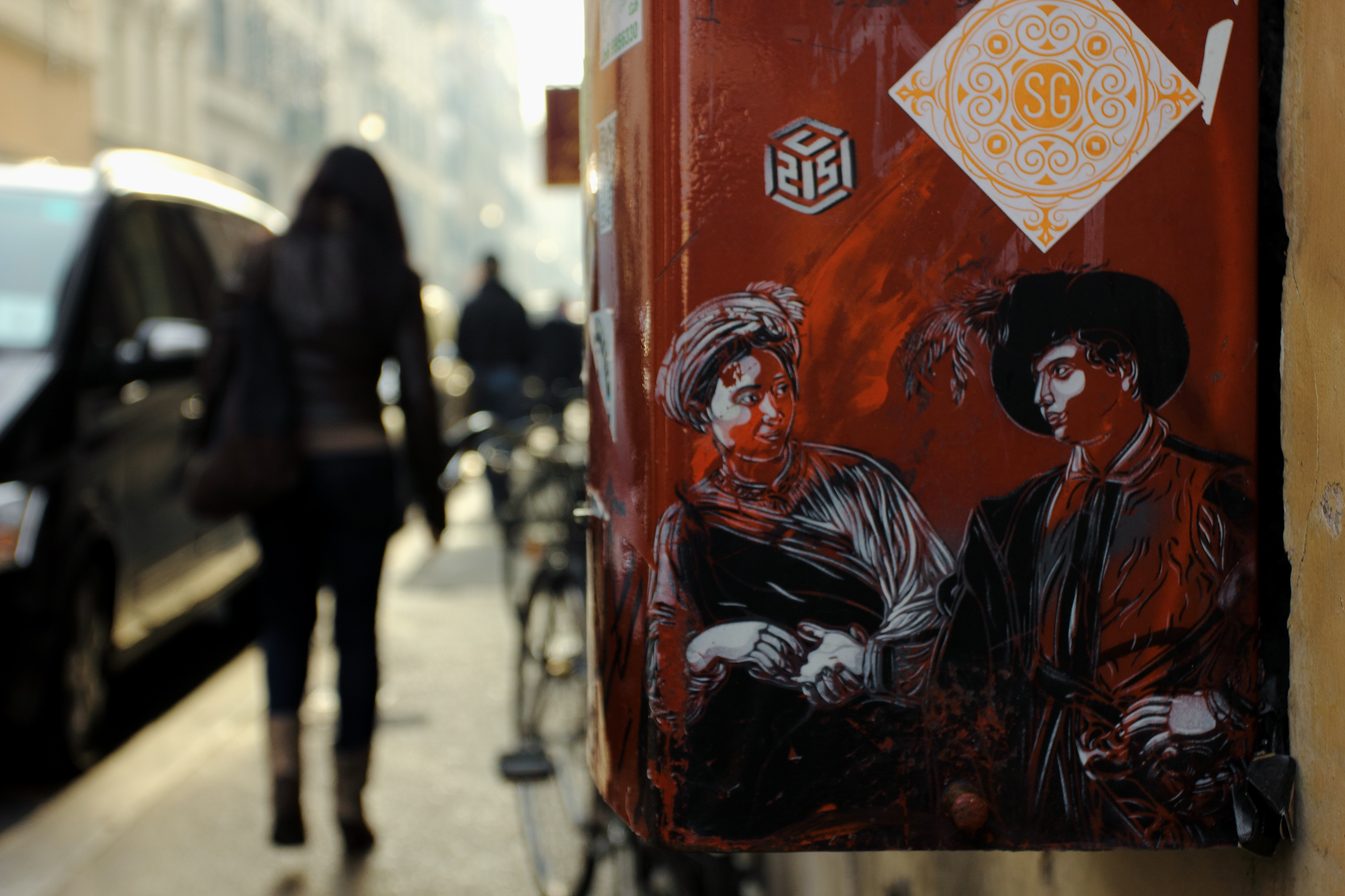 Graffiti by C215 of The Fortune Teller (the version at the Pinacoteca Capitolina) by Caravaggio in Rome, Italy.